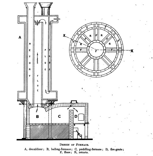 Design of a furnace for making iron from ironsand, developed by and patented in 1873, by Joel Wilson of Dover, New Jersey, USA. It was used at the Onehunga Ironworks in New Zealand from 1883 to 1887, at least. A mixture of the concentrated iron-sand and the reducing agent (fine coal) was loaded into one of the twelve retorts of the smelting furnace, where this mixture resided for about 24-hours, during which it was heated by flue gases from the puddling furnace. —The multiple retorts in each furnace allowed an essentially 'batch' process to be operated more or less continuously, another ingenious feature of Wilson's design.—When a gate-valve in the base of any retort was opened, a sticky mass of hot, reduced iron-sand was transferred (by gravity) into the 'balling' section of the furnace; here it was heated for about half an hour—again by puddling furnace flue gases—until a ball of 'sponge iron', about 18-inches in diameter, was created. This ball was then rolled across into the 'puddling' section of the furnace. The conventional 19th-century iron-making process of puddling then took place, resulting in a ball-shaped piece of puddled iron. The source of the image of this drawing is Page 225 of the Transactions of the Wellington Philosophical Society, in a paper "New Zealand Ironsands: an Historical Account of an Attempt to Smelt Ironsands at Onehunga in 1883" writtem by J.M.Chambers (communicated by Evan Parry, who presumably read it to the meeting).